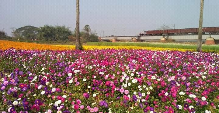 locality